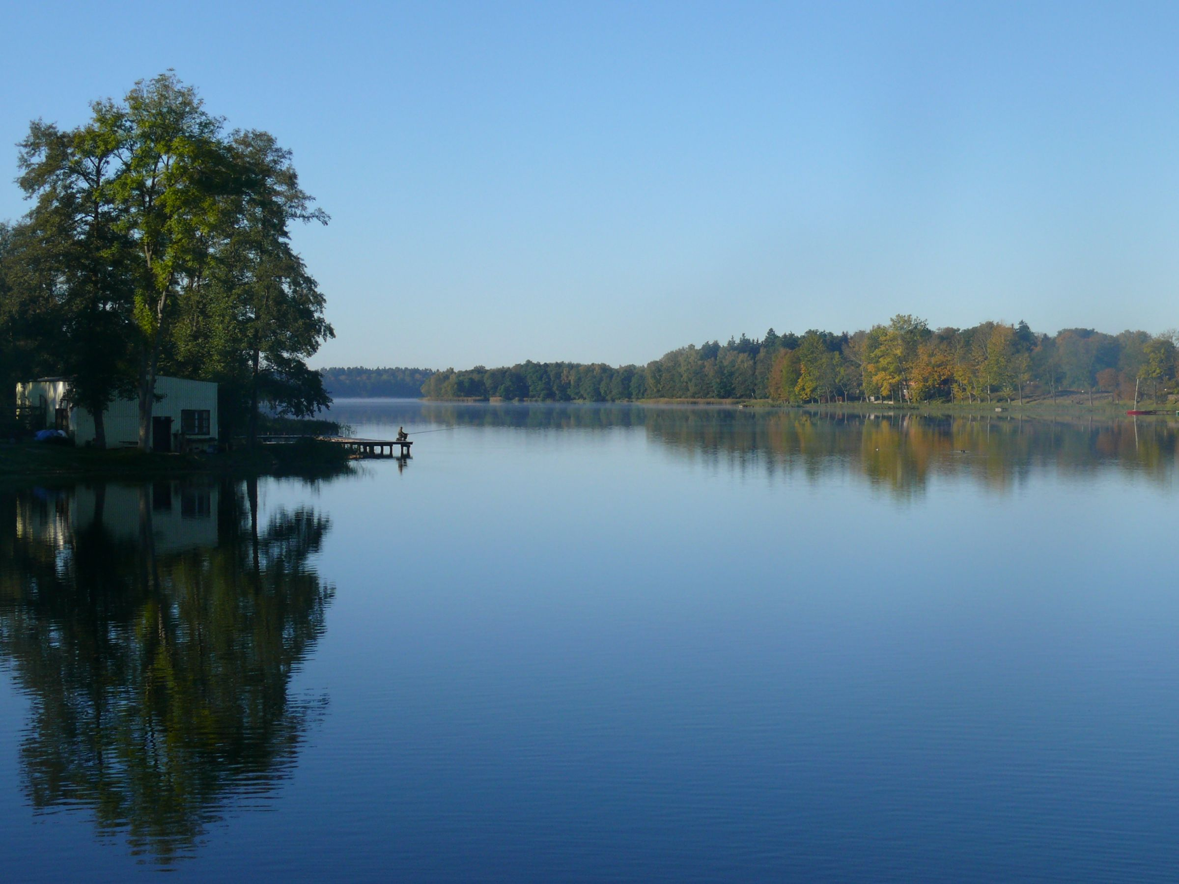 Poland, the Dubie lake